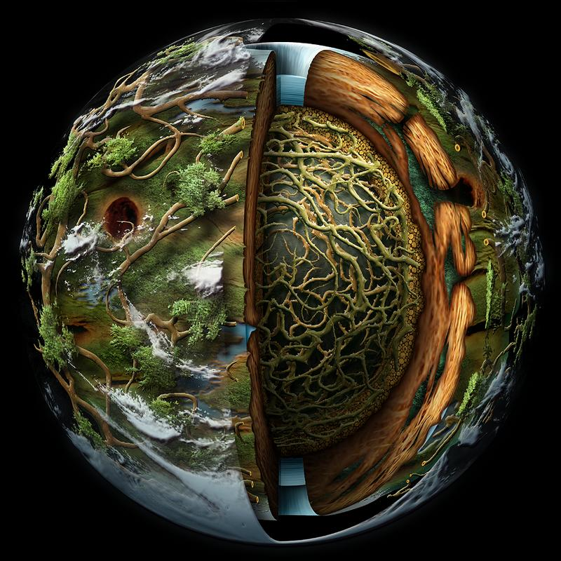 Atys-ryzom2